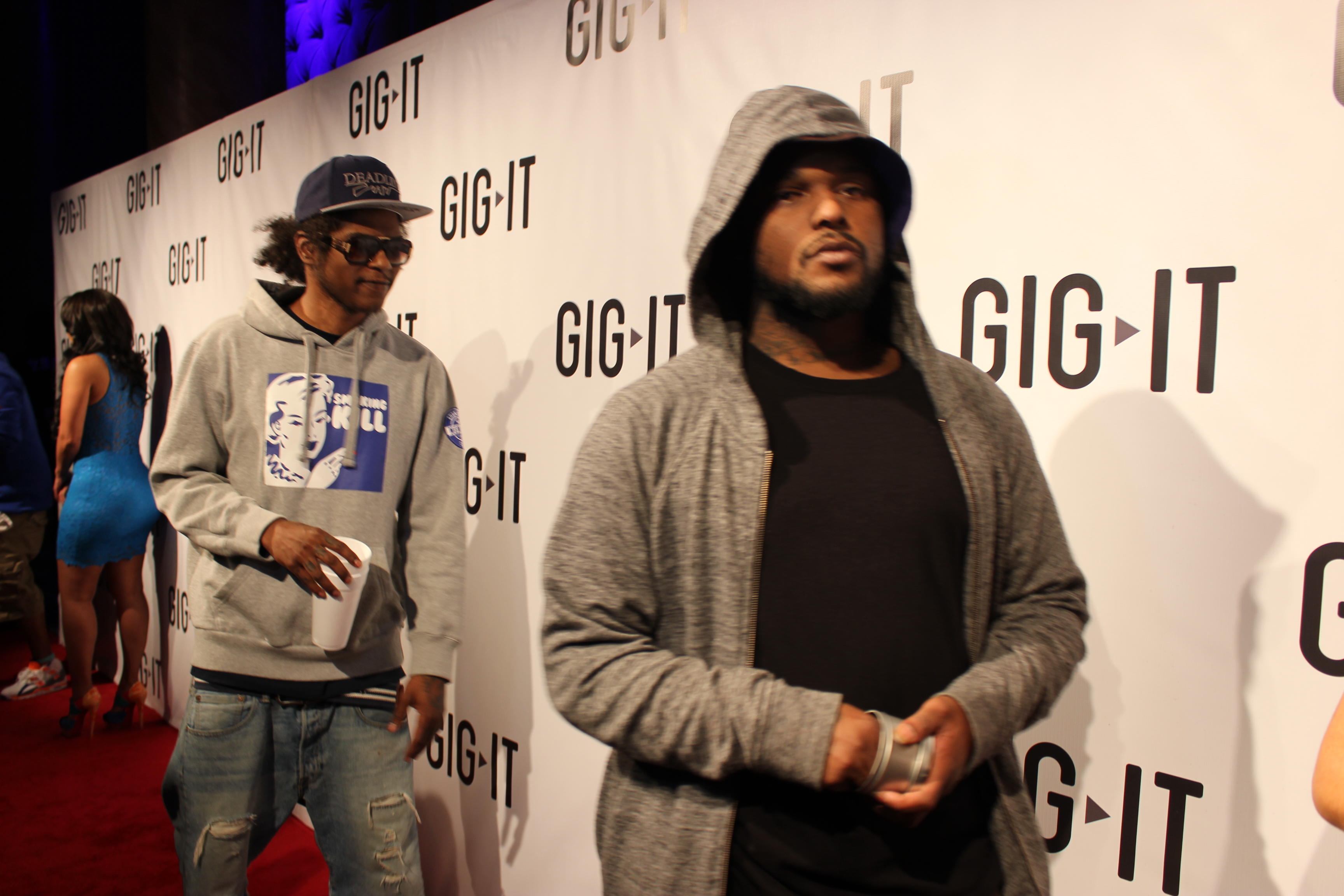 Rappers Schoolboy Q and Ab-Soul in 2012.